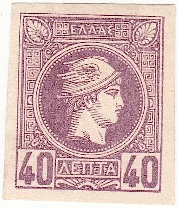 Small Hermes Head of Greece - 40 lepta violet (Malines printing), imperforated, unused. Michel N°73C